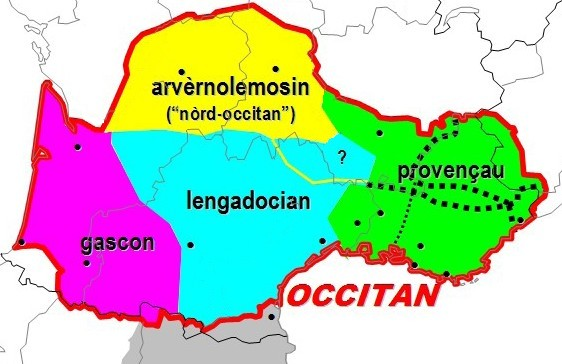 Dialectal classification of Occitan according to Jacques Allières